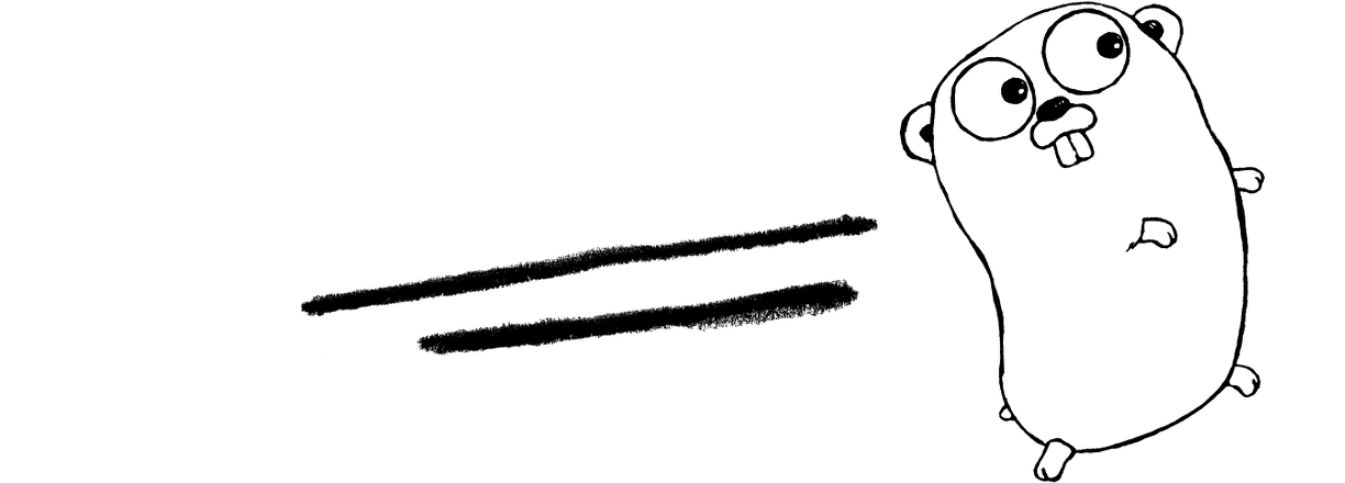 The mascot and logo were designed by Renée French, who also designed Glenda, the Plan 9 bunny. The gopher is derived from one she used for an WFMU T-shirt design some years ago. The logo and mascot are covered by the Creative Commons Attribution 3.0 license.[1]; permission